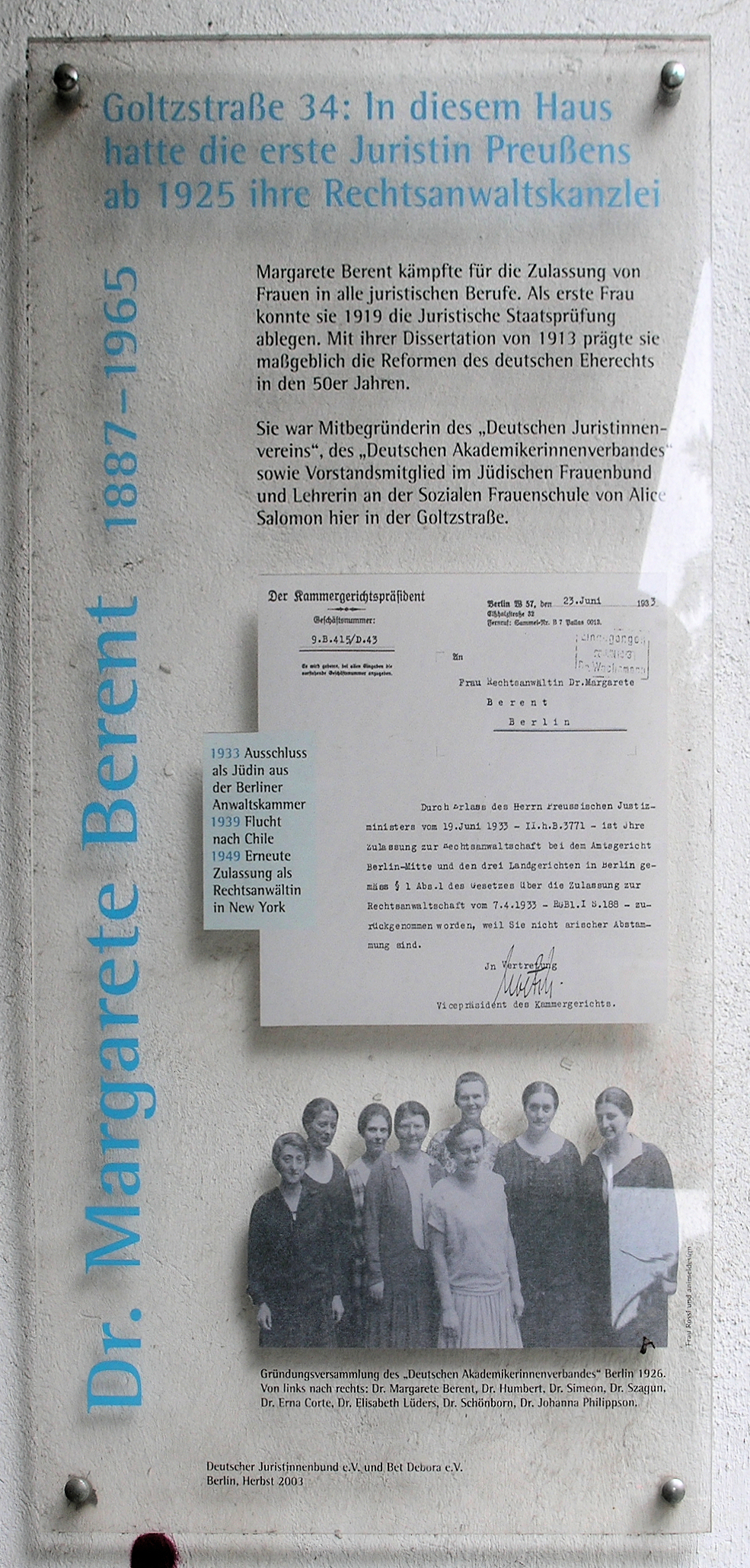 Memorial plaque, Margarete Berent, Goltzstraße 34, Berlin-Schöneberg, Germany Koordinate:52°29′39″N 13°21′13″E / 52.49417°N 13.35361°E